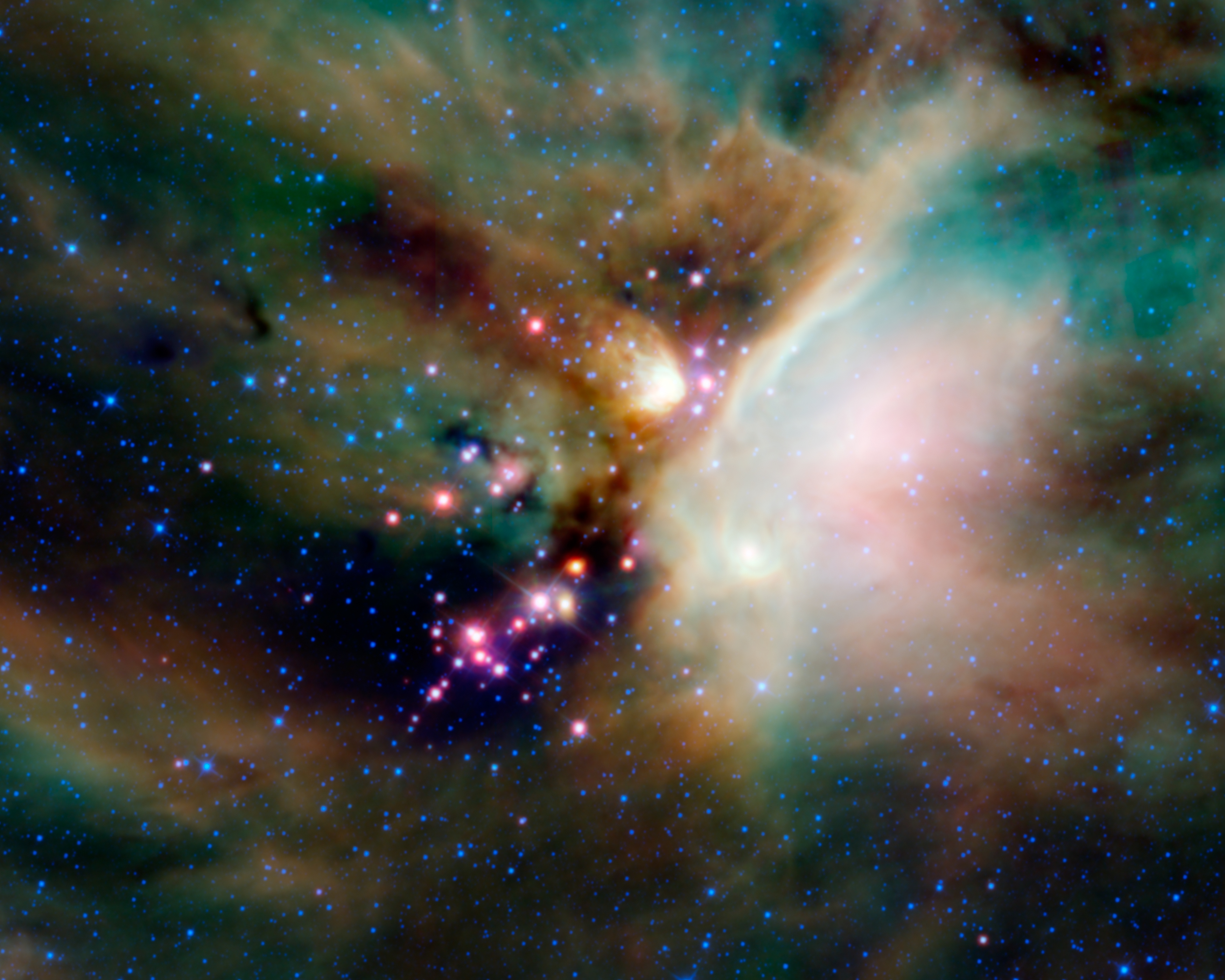 The bright pink objects around the center are young stellar objects (YSOs) located in the Rho Ophiuchi cloud complex. These baby stars are just now forming; many of them are still enveloped in their own tiny compact nebulae. In visible light, these YSOs are completely hidden in the dark nebula that surrounds them, which is sometimes referred to as their baby blanket. The very bright region just above center is part of the cloud illuminated by the T-Tauri star 2MASS J16263416-2423282. The bright but diffuse area just right of center is an area illuminated by the YSO 2MASS J16260931-2434121.